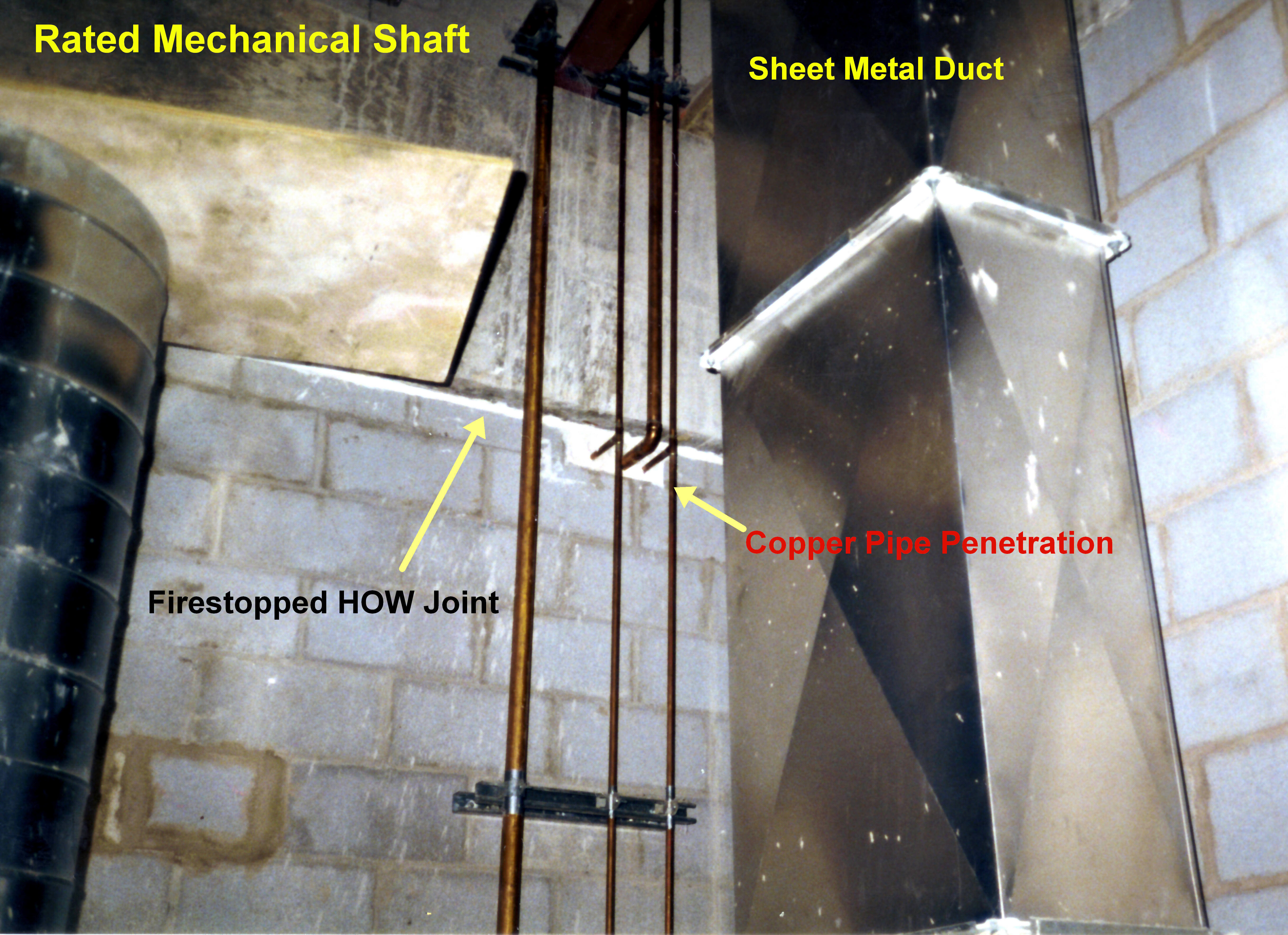 Fire-resistance rated mechanical shaft with HVAC sheet metal ducting and copper piping, as well as "HOW" (Head-Of-Wall) joint between top of concrete block wall and underside of concrete slab, firestopped with ceramic fibre-based firestop caulking on top of rockwool. The picture illustrates that building joints are routinely penetrated by mechanical and electrical penetrants or services, requiring joint firestops to be compatible with mechanical, electrical and structural penetrants, both in fire testing and under common operational conditions, such as expansion and contraction of mechanical systems due to temperature changes.